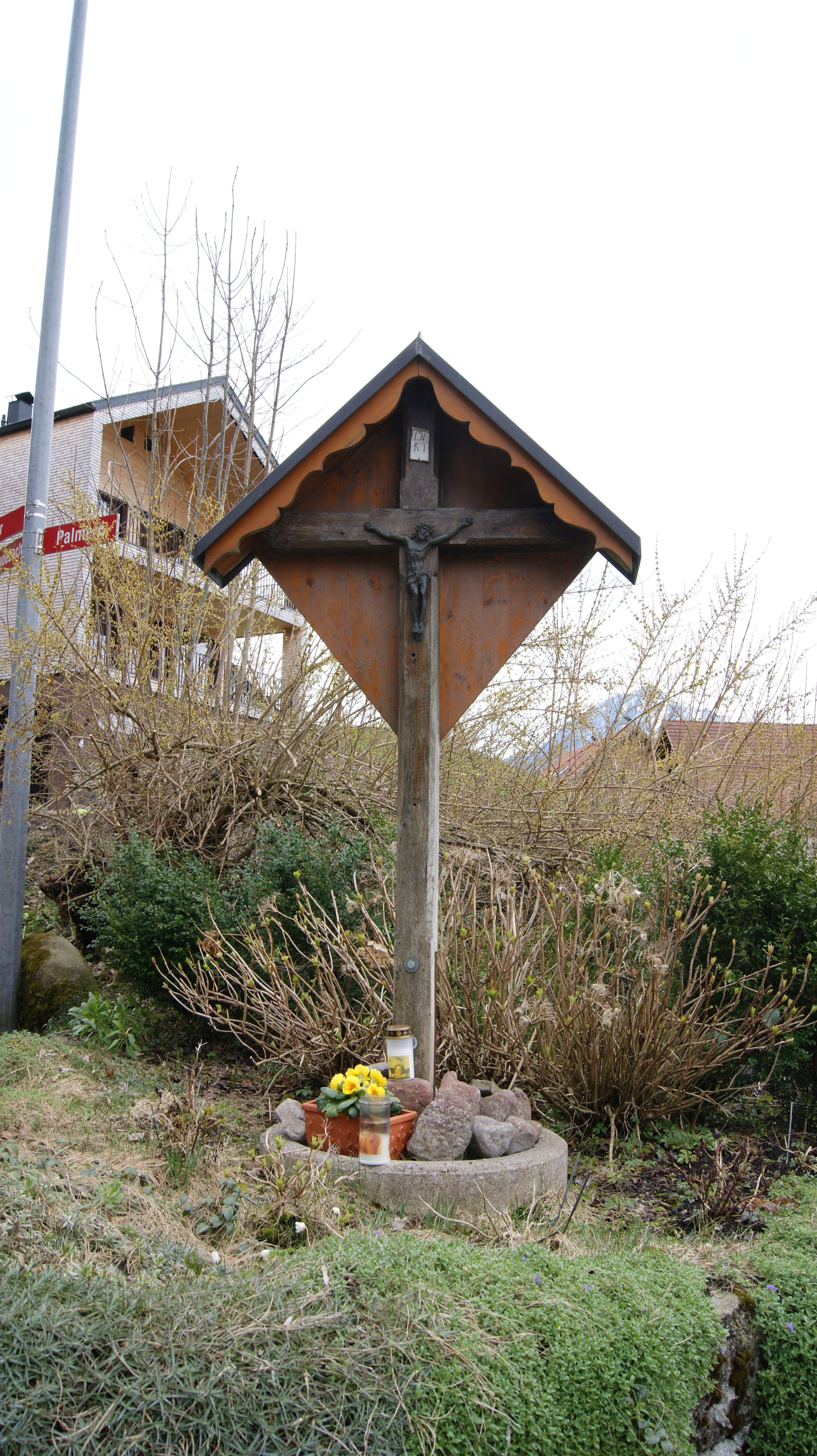 Wayside cross in Watzenegg-Plamern, Dornbirn Vorarlberg Austria.